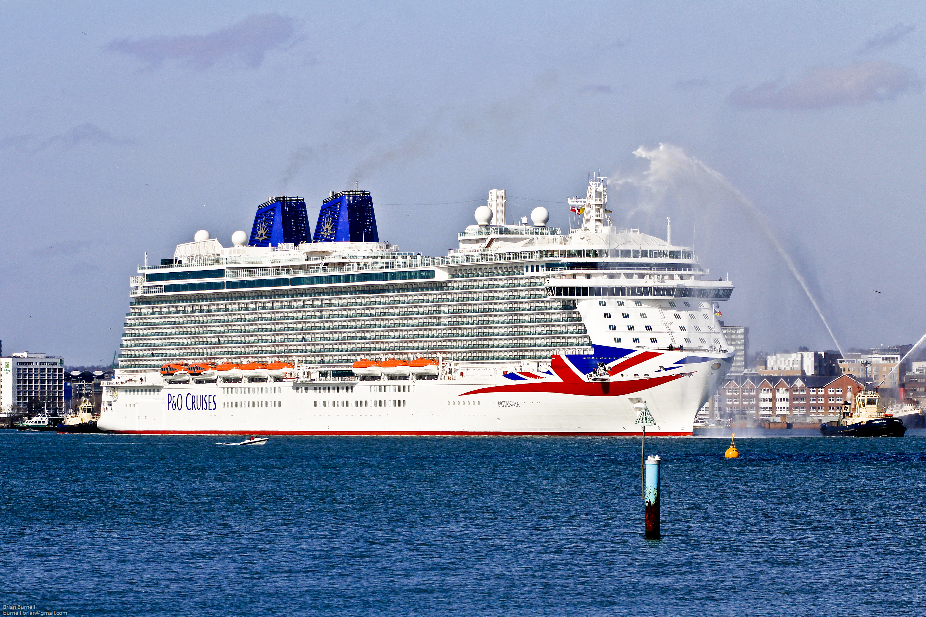 P&O cruise ship Britannia arriving for the first time in Southampton Docks on 6th March 2015 to prepare for her maiden voyage. Wikipedia editors are reminded that the copyright remains with the photographer, and that the terms of the Creative Commons licence CC-BY-SA-3.0 that allow editors to reuse this image apply to Wikipedia editors also, as they do to other re-users of this image. Breaches of the licence terms are not only unlawful, but are also antisocial, in that breaches discourage photographers from making their images freely available to everyone without payment. Wikipedia re-users are also reminded of the license terms that derivatives of this image should not imply that the adaptation is endorsed or approved by the author or copyright holder. Neither should derivatives be presented as the creation of the author or copyright holder, while clearly stating that the adaptation is a derivative of the original. Attribution online should be in this format Brian Burnell. On the printed page, a simpler form is acceptable - example: "Image: Brian Burnell".